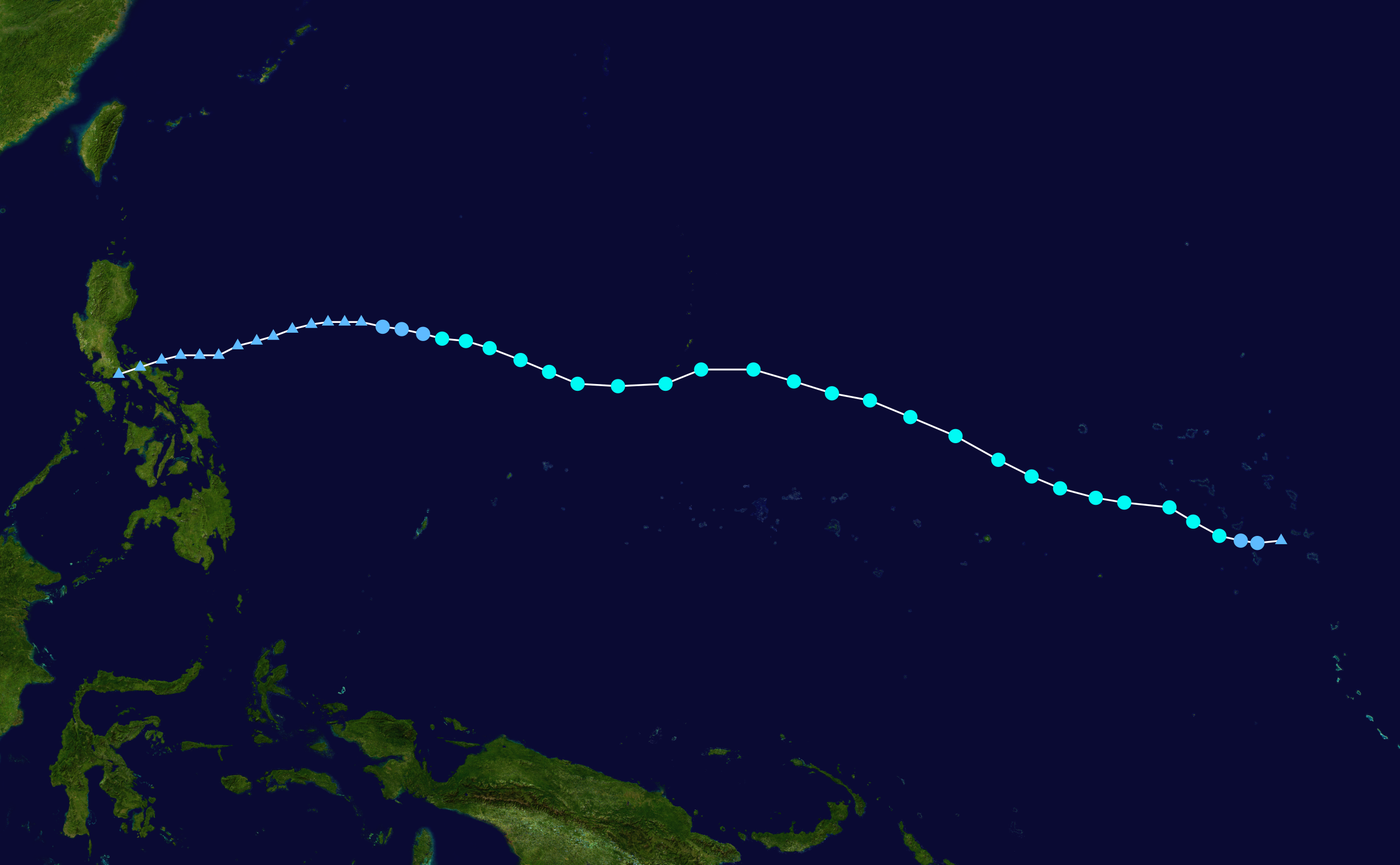 Track map of Tropical Storm Bavi of the 2015 Pacific typhoon season. The points show the location of the storm at 6-hour intervals. The colour represents the storm's maximum sustained wind speeds as classified in the Saffir–Simpson scale (see below), and the shape of the data points represent the nature of the storm, according to the legend below. Saffir–Simpson scale Tropical depression≤38 mph≤62 km/h Category 3111–129 mph178–208 km/h Tropical storm39–73 mph63–118 km/h Category 4130–156 mph209–251 km/h Category 174–95 mph119–153 km/h Category 5≥157 mph≥252 km/h Category 296–110 mph154–177 km/h Unknown Storm type Tropical cyclone Subtropical cyclone Extratropical cyclone / Remnant low / Tropical disturbance / Monsoon depression